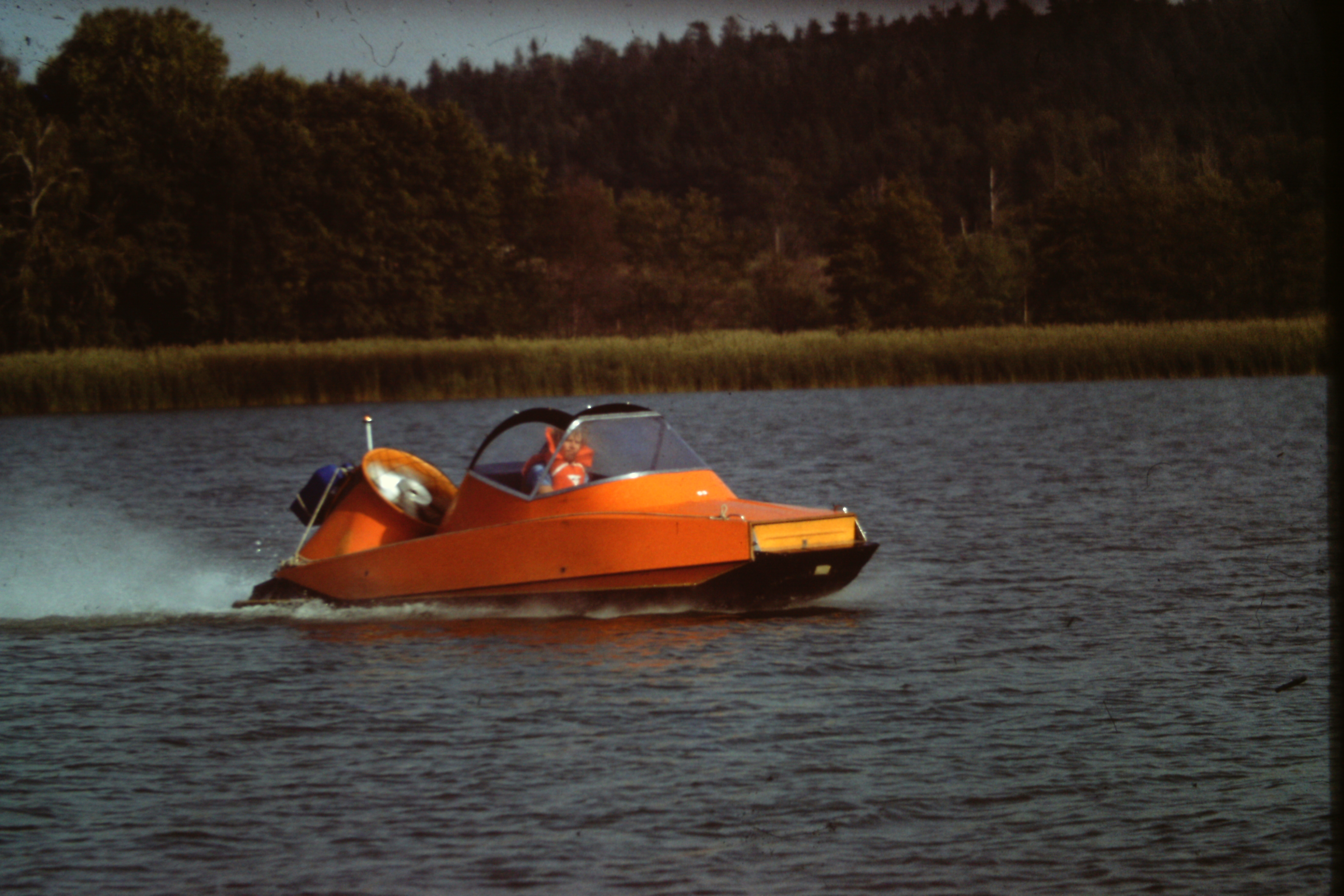 FFA Hovercraft Type 2